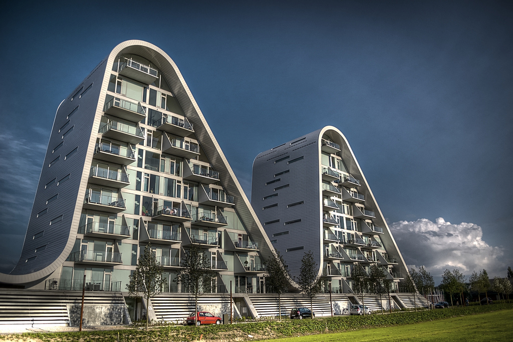 The Wave, a Residential project by Henning Larsen Architects in Vejle, Denmark